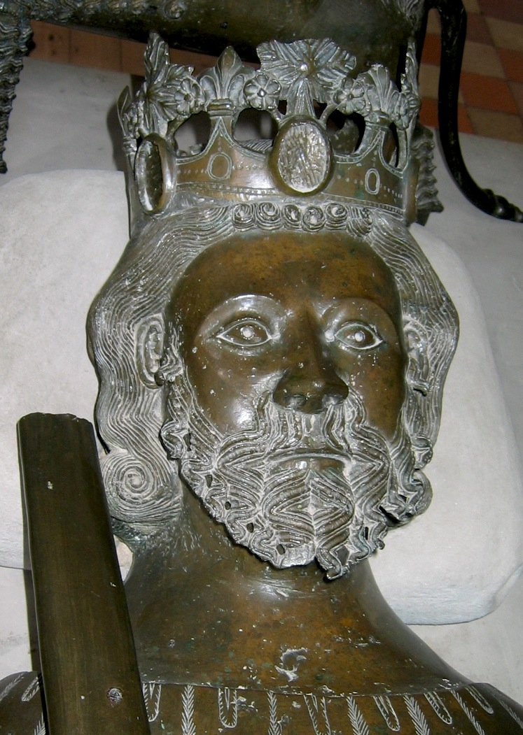 King of Denmark Christopher II, detail of his tomb at Sorø